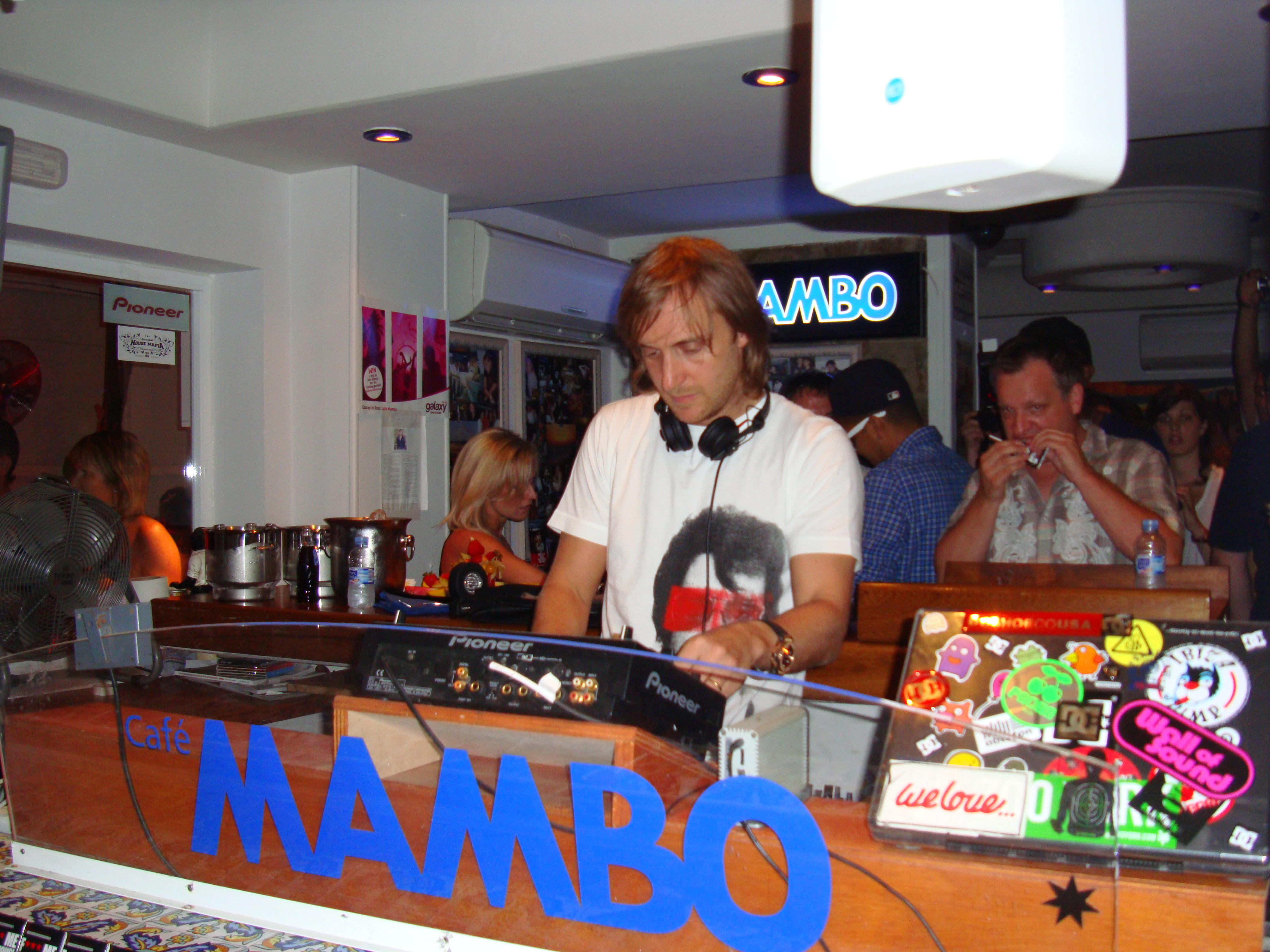 David Guetta DJ'ing at one of his official pre-parties at Café_Mambo, Ibiza